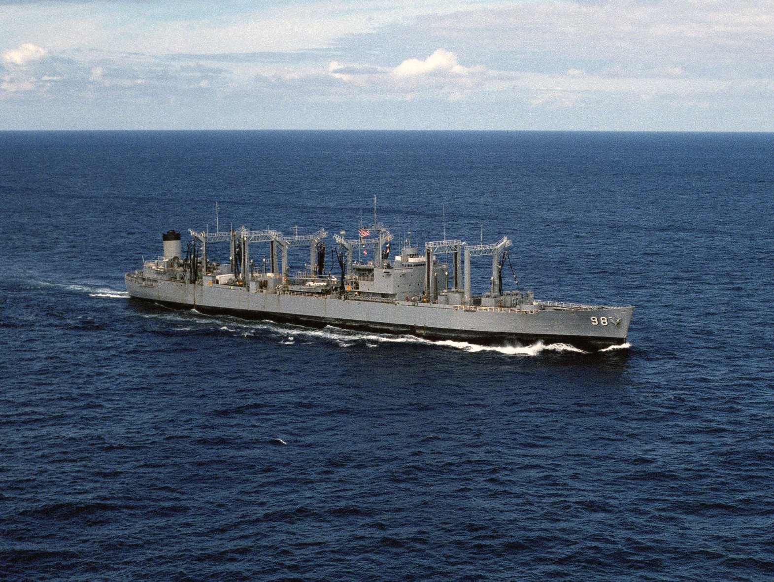 The U.S. Navy fleet oiler USS Caloosahatchee (AO-98) underway in 1988.